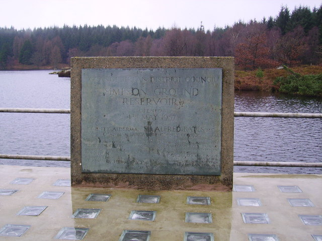 Plaque, Simpson Ground Reservoir opened 4th. May 1957 50 years ago. Built for Grange Urban District Council by Lancashire County Council in the days when Lancashire included Furness. Nice 50's style glass tiles on the base.